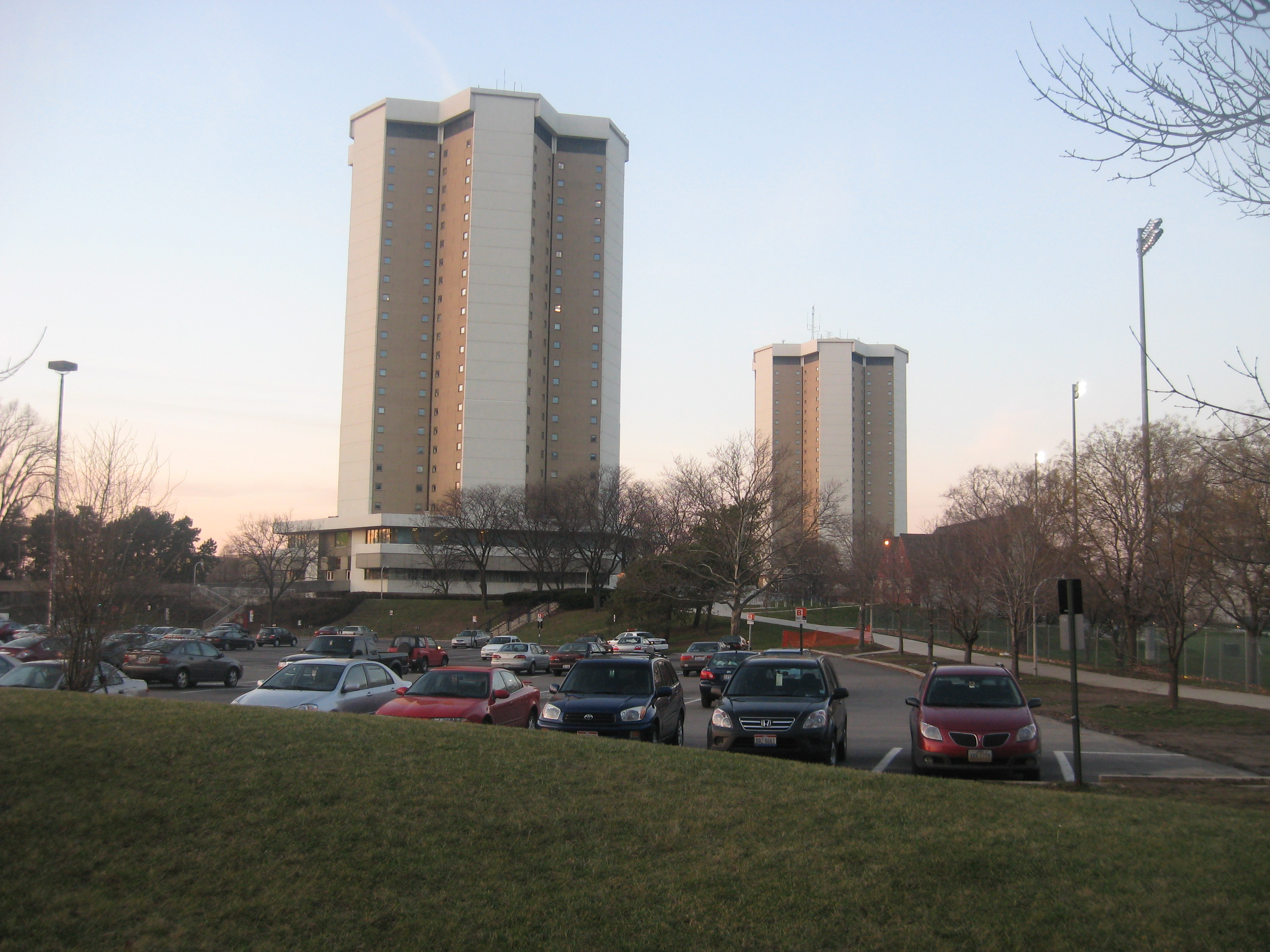 A photo of Morrill and Lincoln Towers, Ohio State University